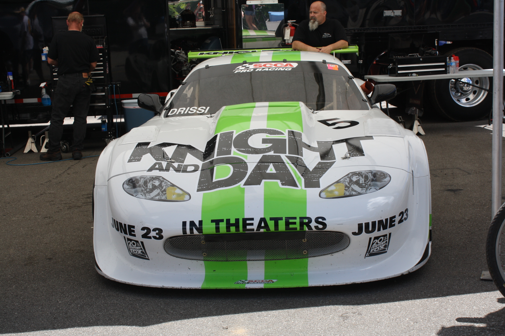 The 2010 Trans-Am Series Jaguar XKR of Tomy Drissi at Road America.